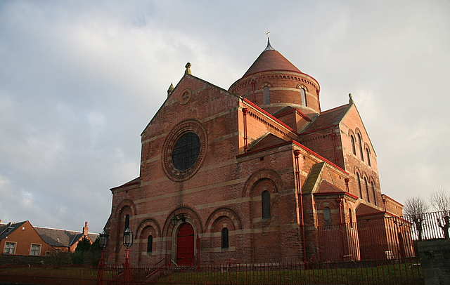 Saint Sophia's church, Galston